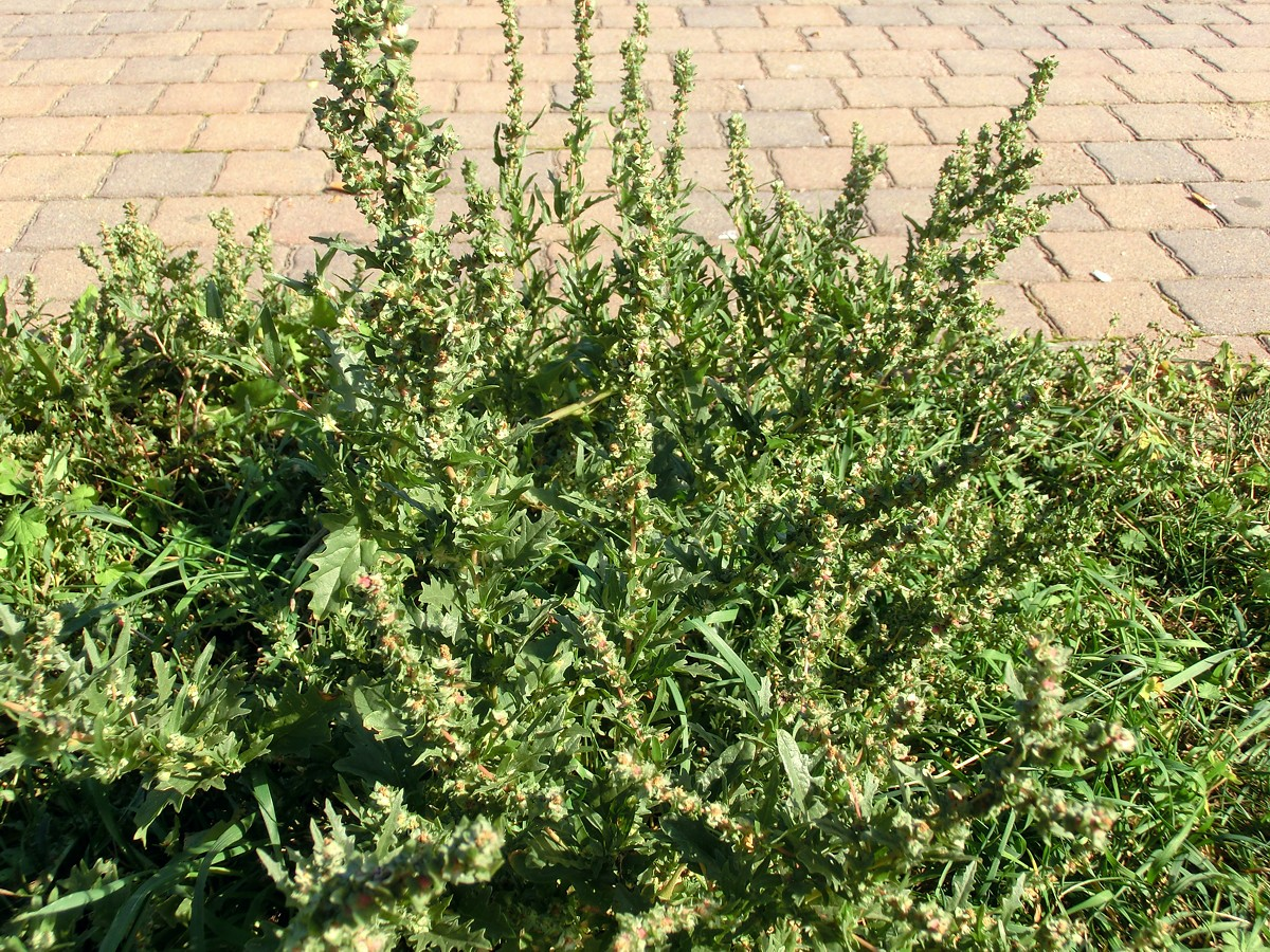 Atriplex tatarica, habitus. Germany, east of Halle (Saale), parking place at highway A9 (Sachsen-Anhalt/Sachsen).